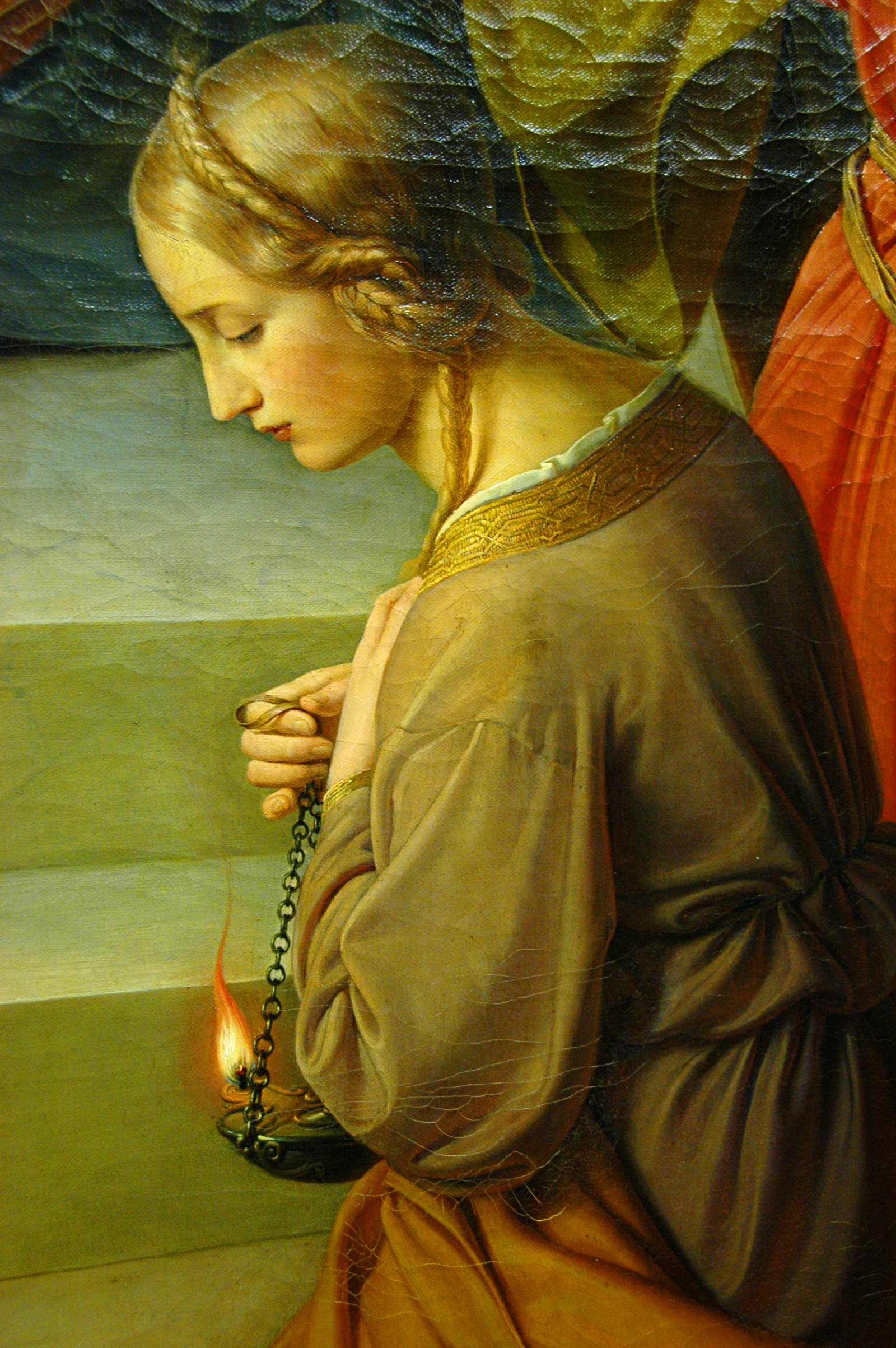 The Parable of the Wise and Foolish Virgins